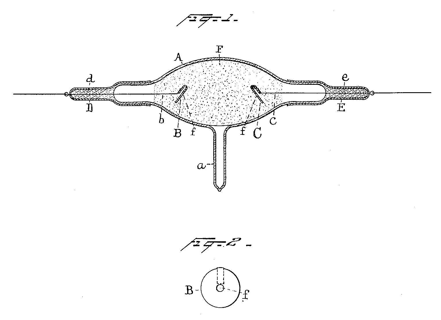 This is a picture of the fluorescent lamp by Thomas Edison from his U.S. Patent 0,865,367. In general, the contents of United States patents are in the public domain.